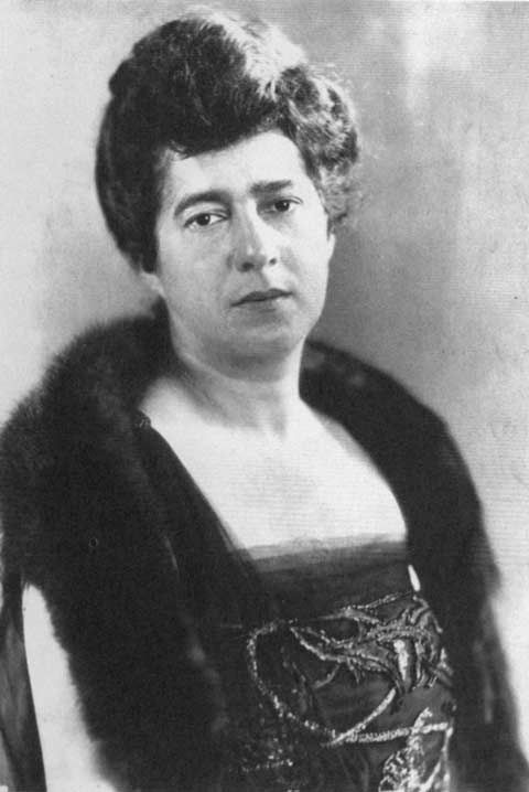 Photograph of the American Jewish women's leader, Rose Brenner, who chaired the National Council of Jewish Women (1920-1926).